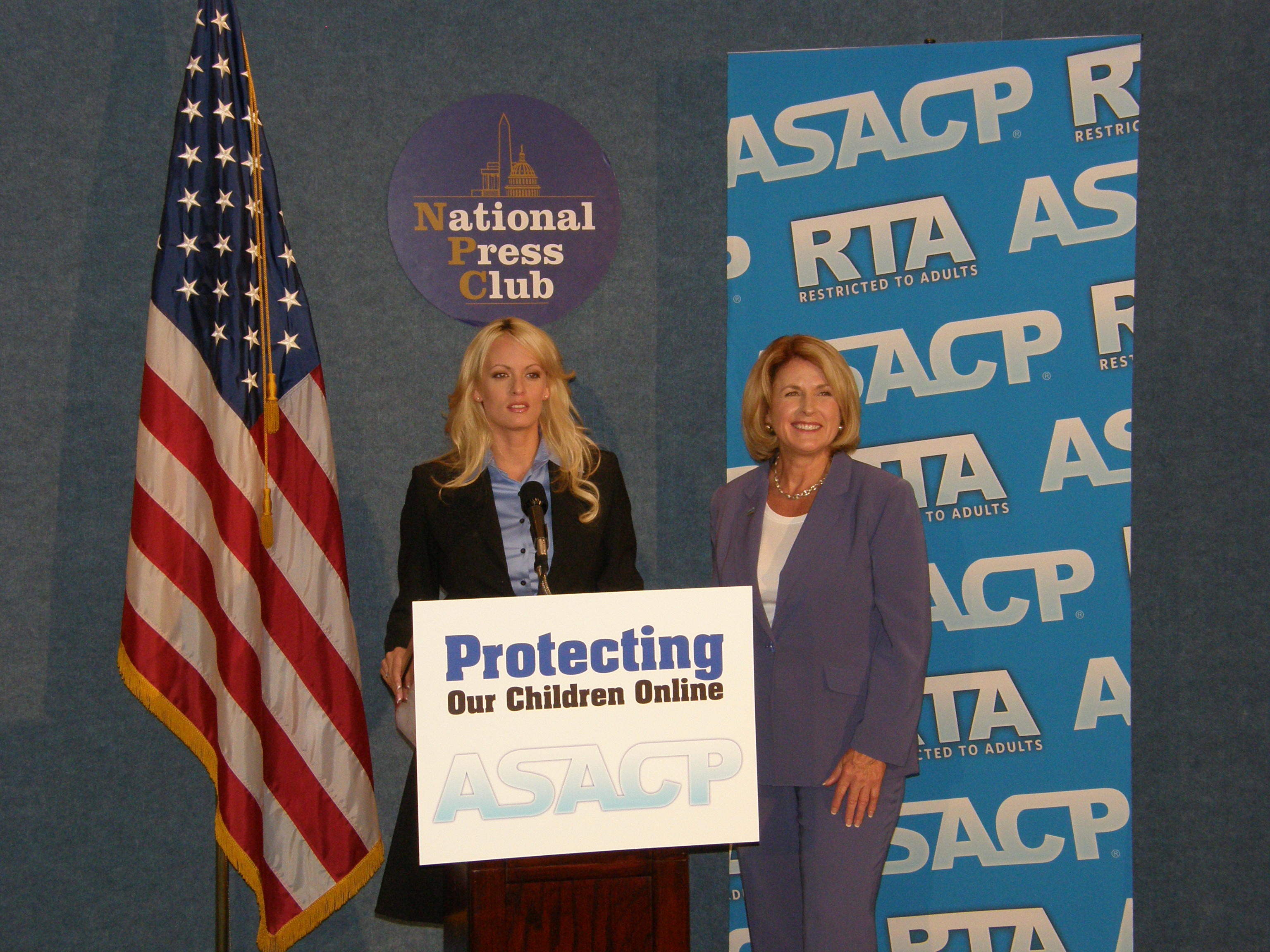 Stormy Daniels and Joan Irvine. Restricted to Adults - RTA Press Conference 2008. National Press Club, Washington DC.